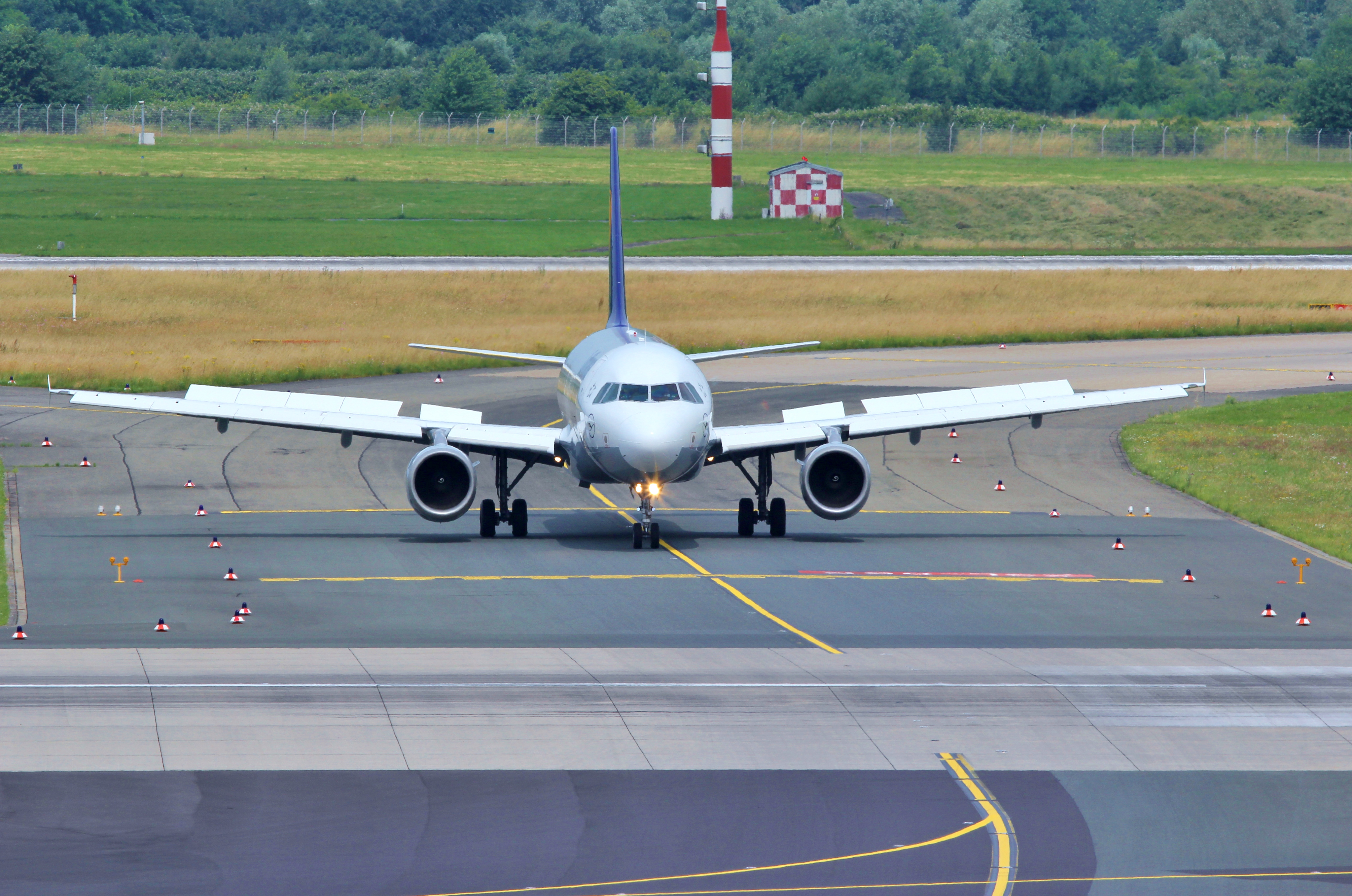 Lufthansa Airbus A320